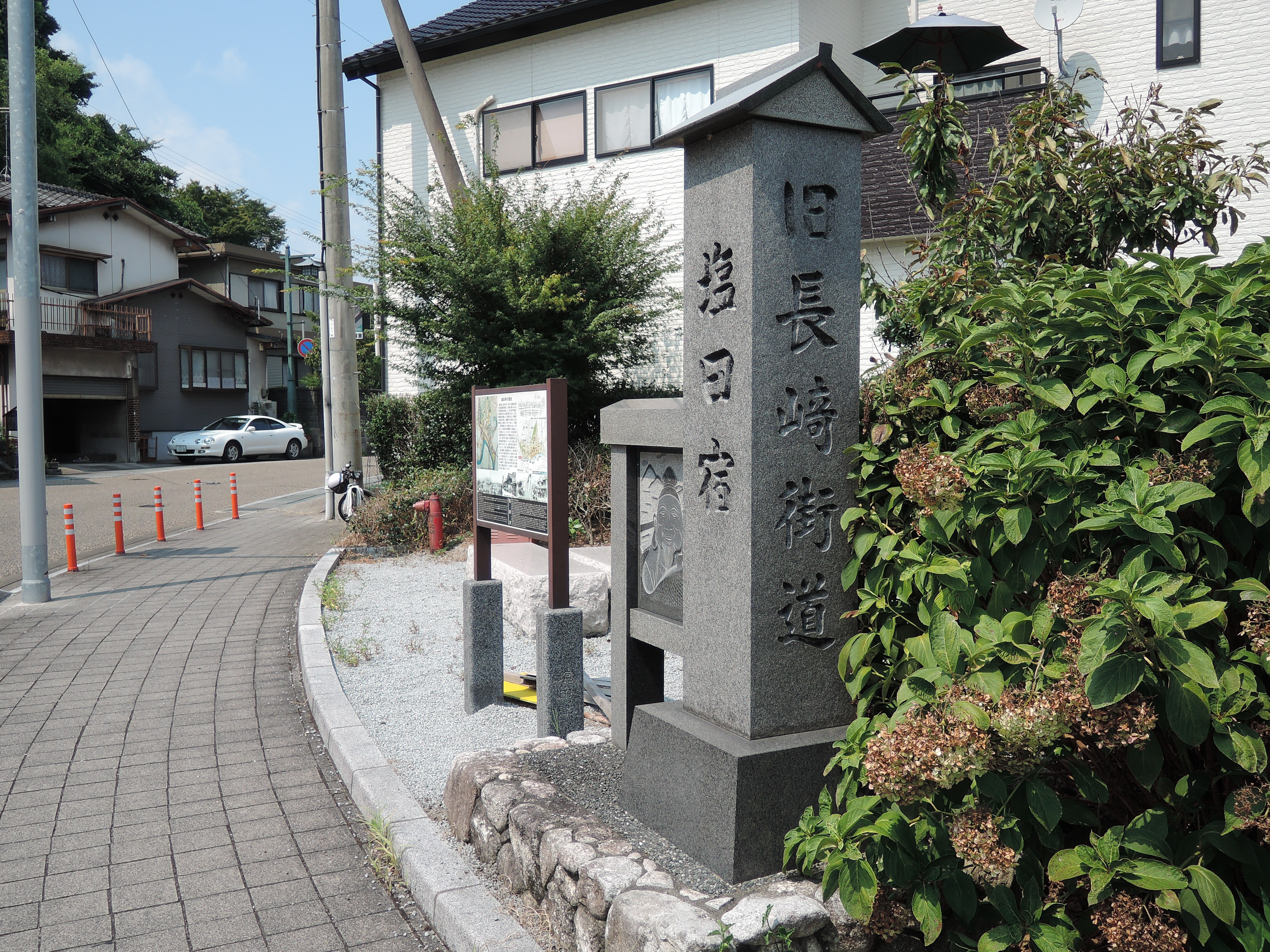 Stele of "Shiota-shuku" which is one of the stations of the Nagasaki Kaidō. (Shiota, Ureshino, Saga, Japan)